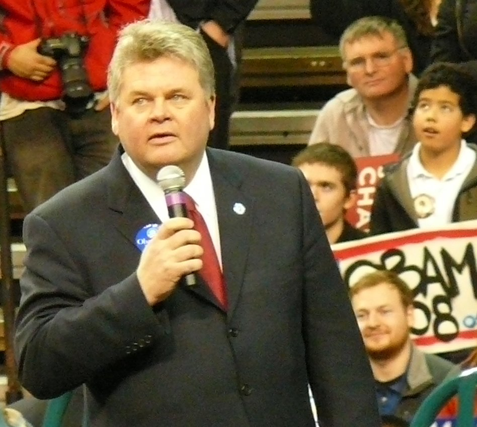 Key Arena, Seattle, WA, USA. Seattle Mayor Greg Nickels speaking at a rally for then-candidate Barack Obama.